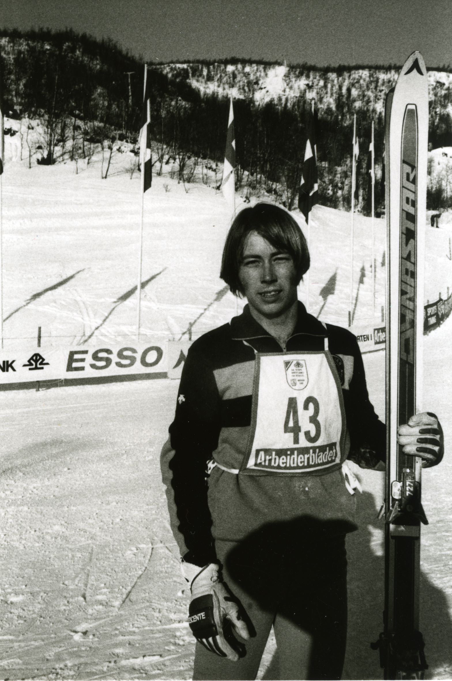 Australian Paralympian Kyrra Grunnsund at the 1980 Geilo Olympic Winter Games for the Disabled